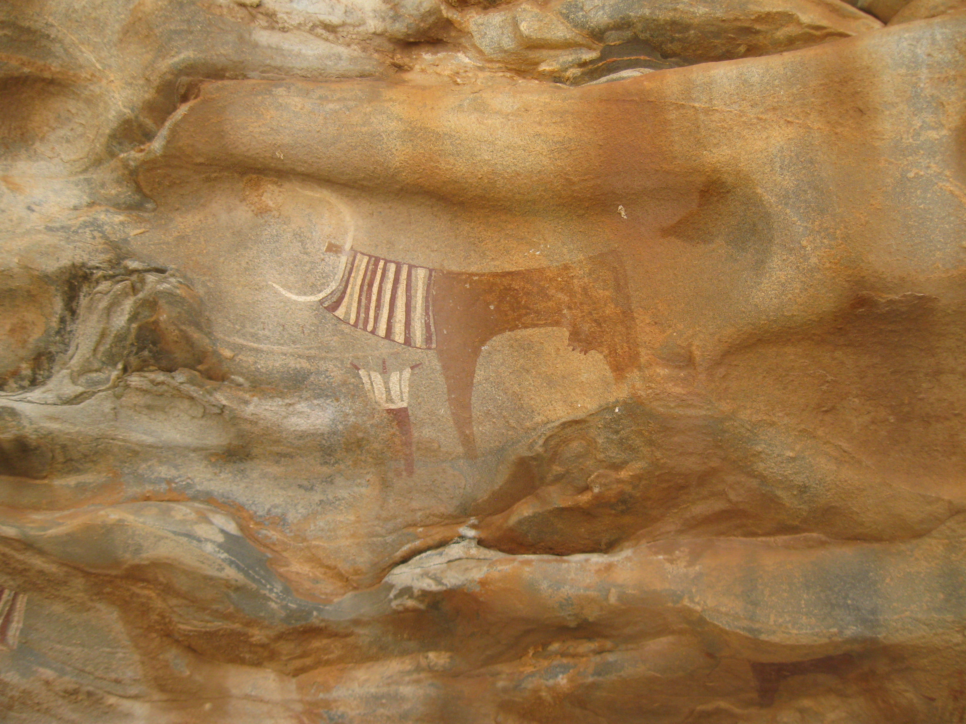 Somalia (Somaliland)